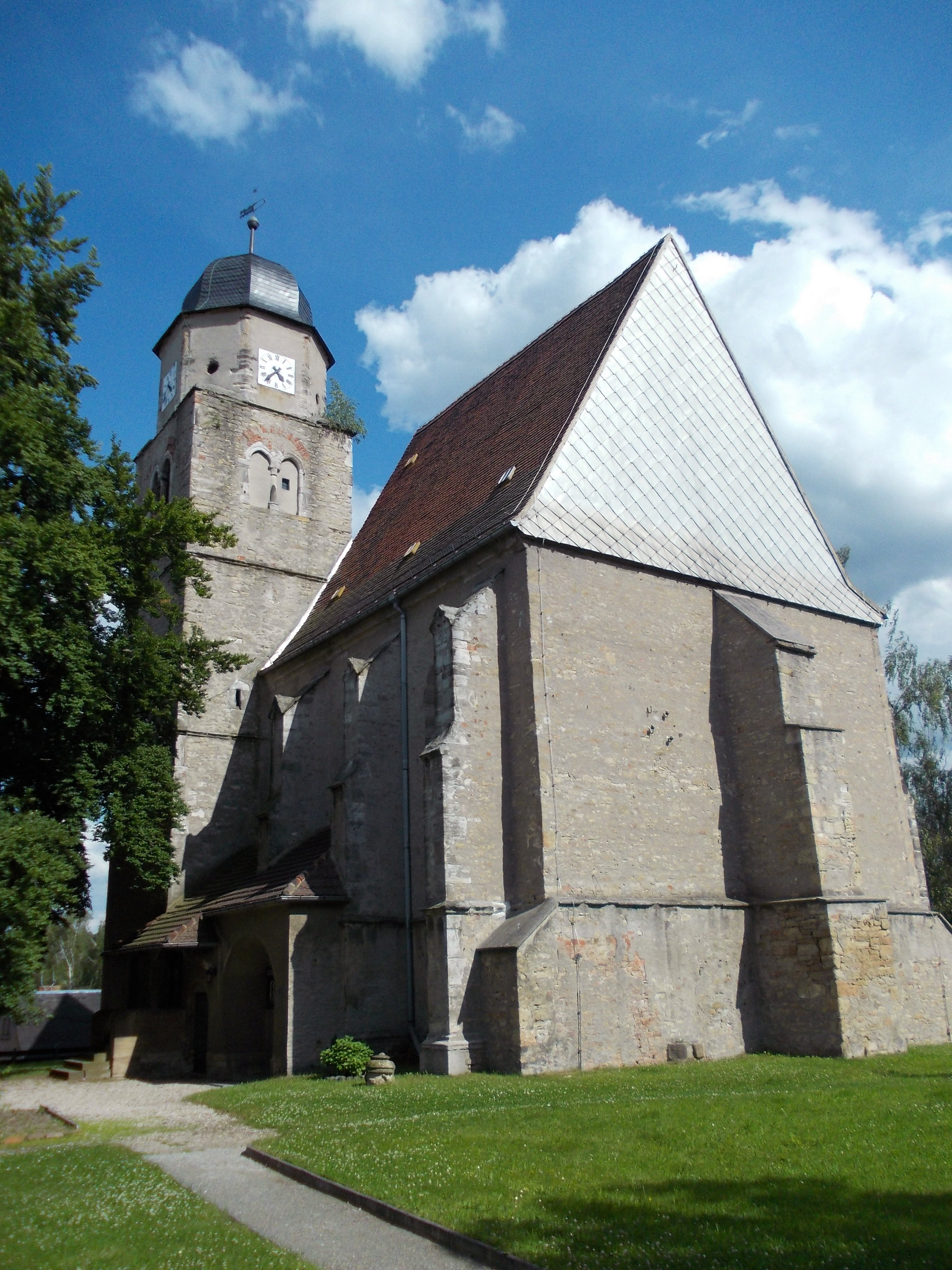 Profen church (Elsteraue, district of Burgenlankreis, Saxony-Anhalt)